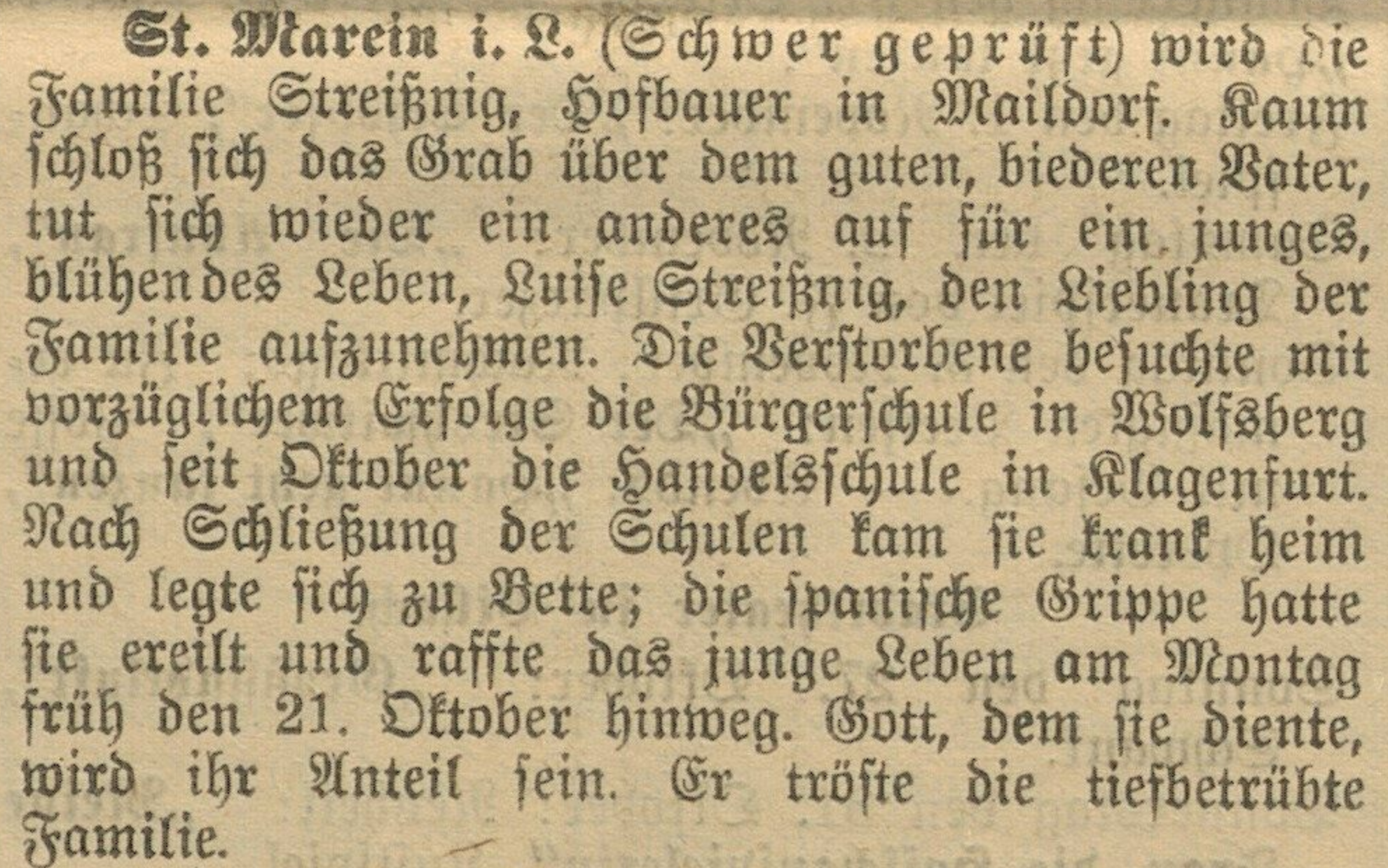 Newspaper reportber 1918 about the Spanish flu from 27th October in „Kärntner Zeitung“, p. 10 in Carinthia / Austria / European Union